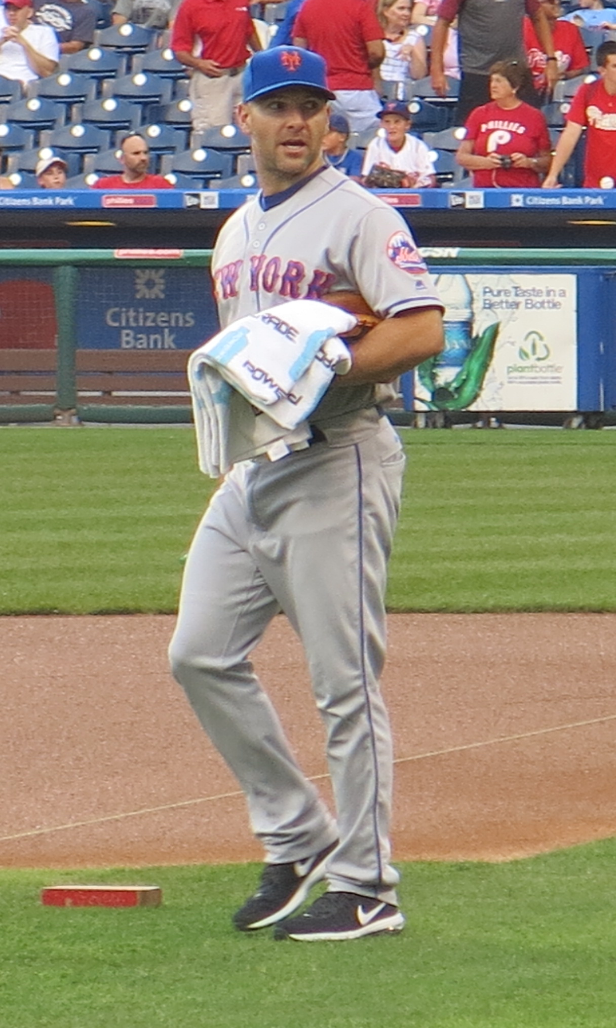 Dave Racaniello of the New York Mets, July 16, 2016.